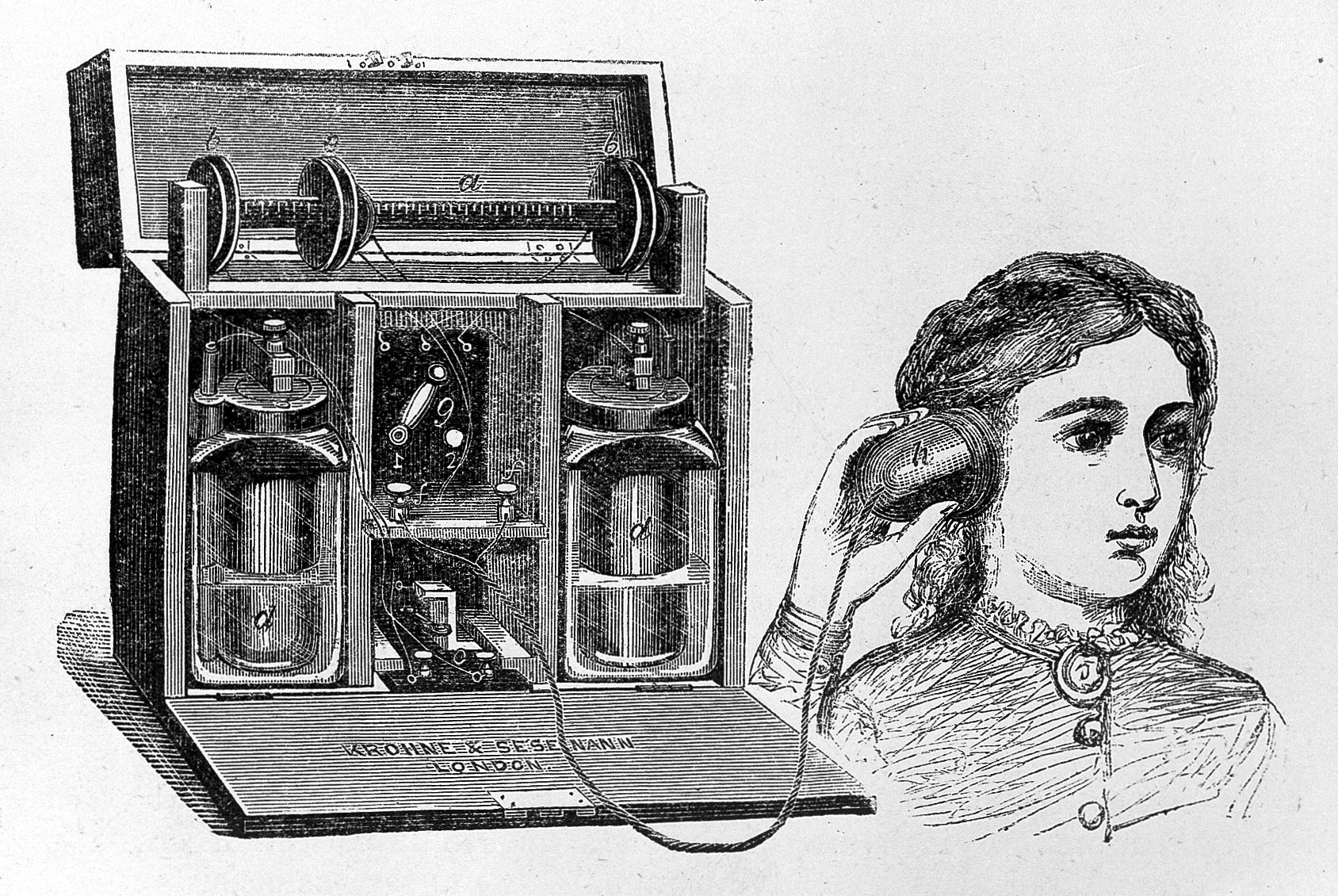 Audiometer in use. Wellcome Images Keywords: Hughes